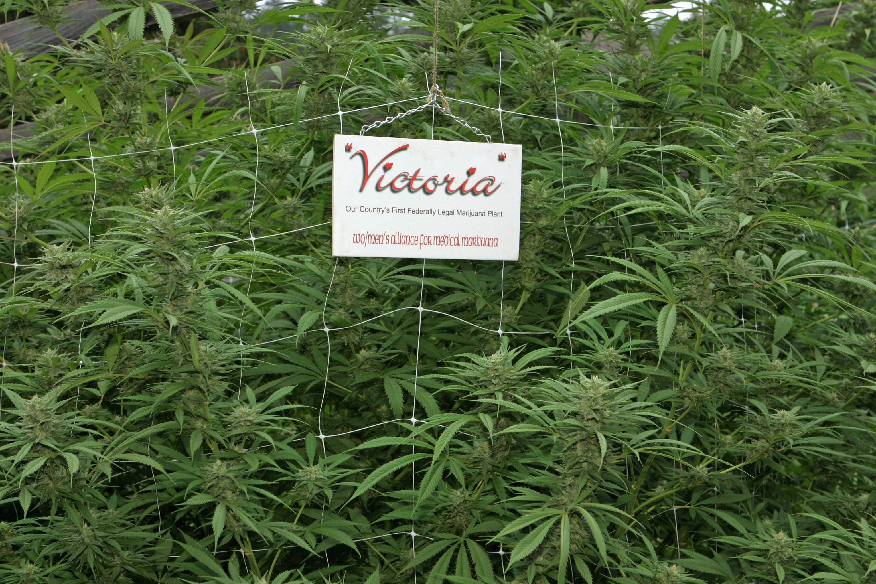 The Wo/Men's Alliance for Medical Marijuana ( presents Victoria, the nation's first legal medical marijuana plant.